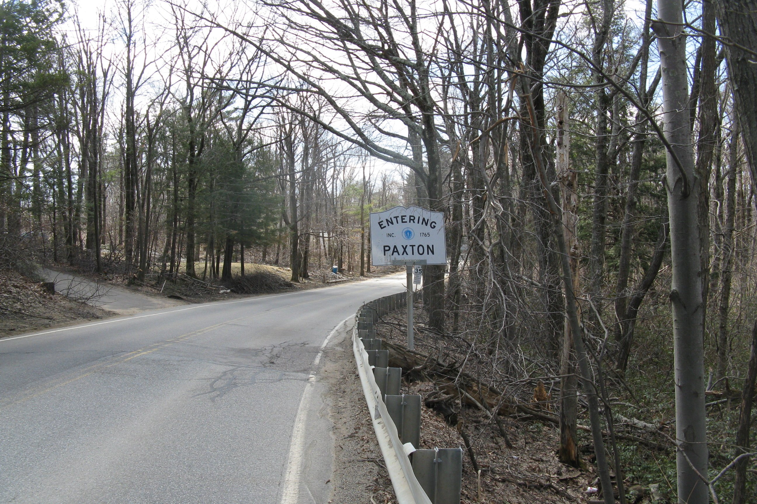 Massachusetts Route 31 westbound entering Paxton Massachusetts